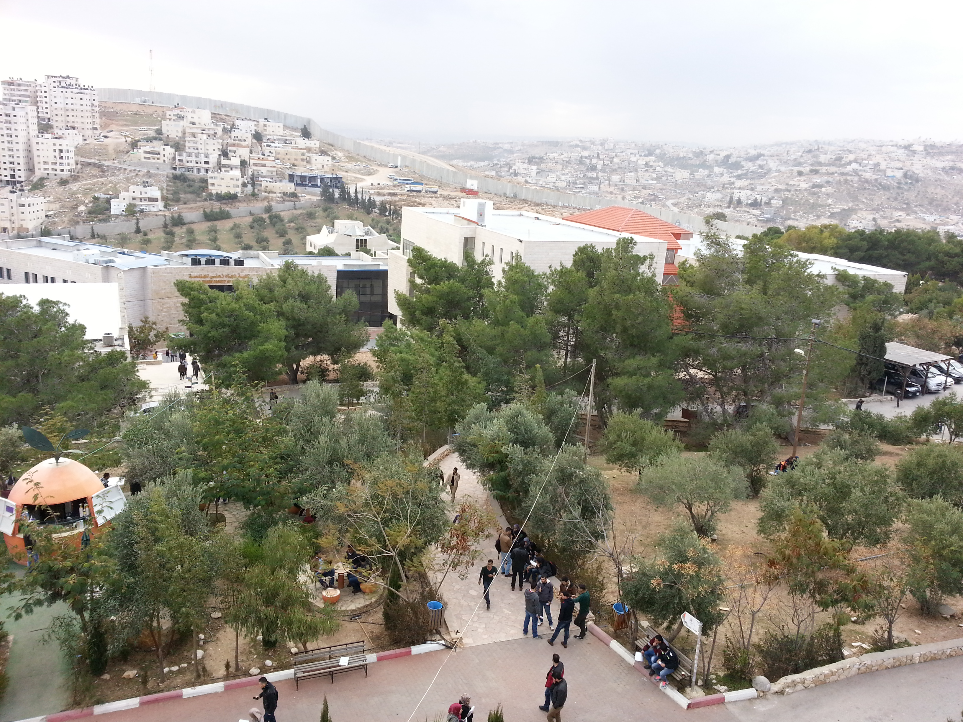 AQU and the wall of occupation